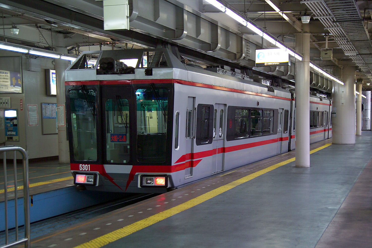 The Shonan Monorail 湘南モノレール in the cities of Fujisawa and Kamakura, Kanagawa Prefecture, Japan.